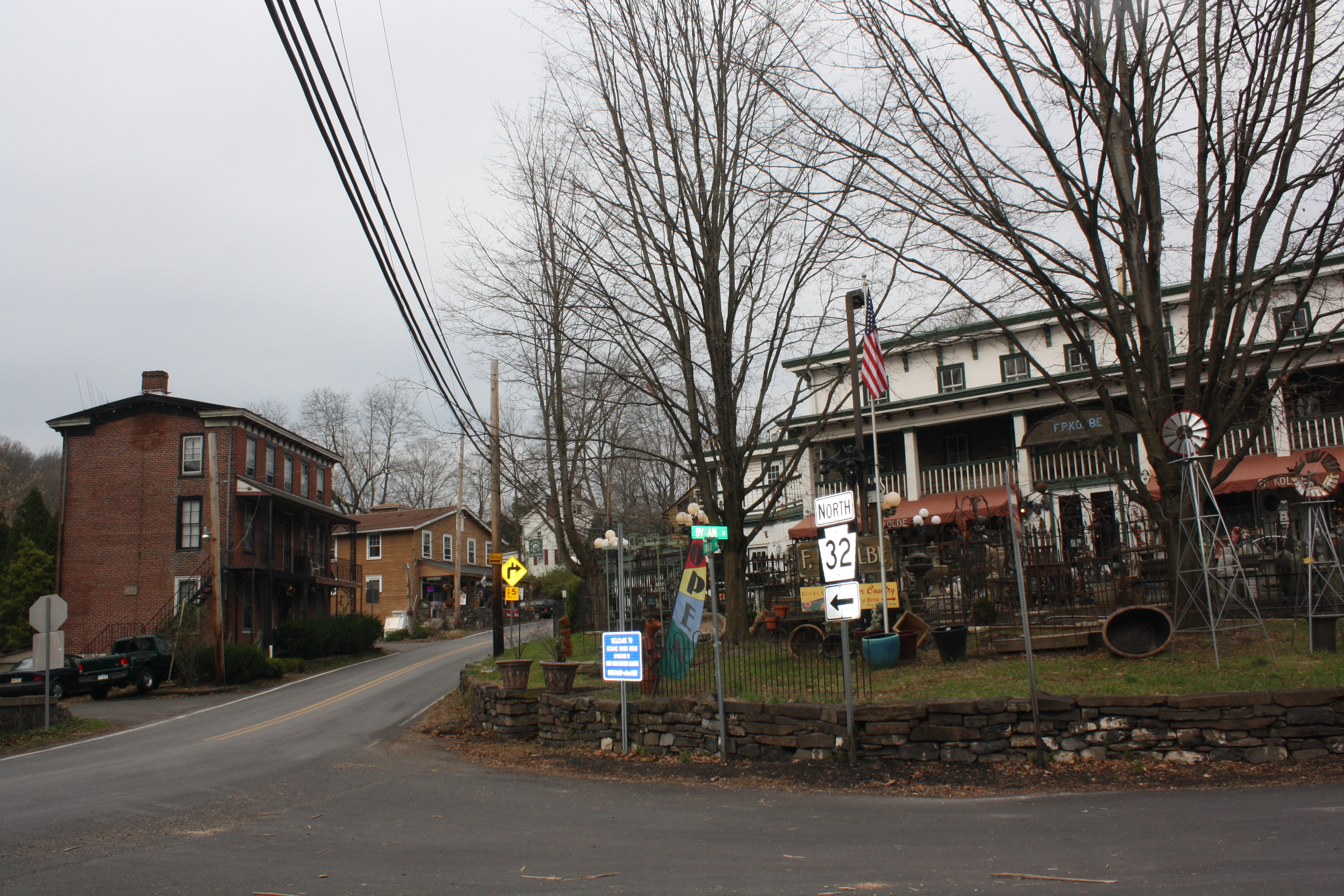 Point Pleasant Historic District is a national historic district located in Point Pleasant, Plumstead Township and Tinicum Township, Bucks County, Pennsylvania. Object location40° 24′ 02″ N, 74° 58′ 48″ W